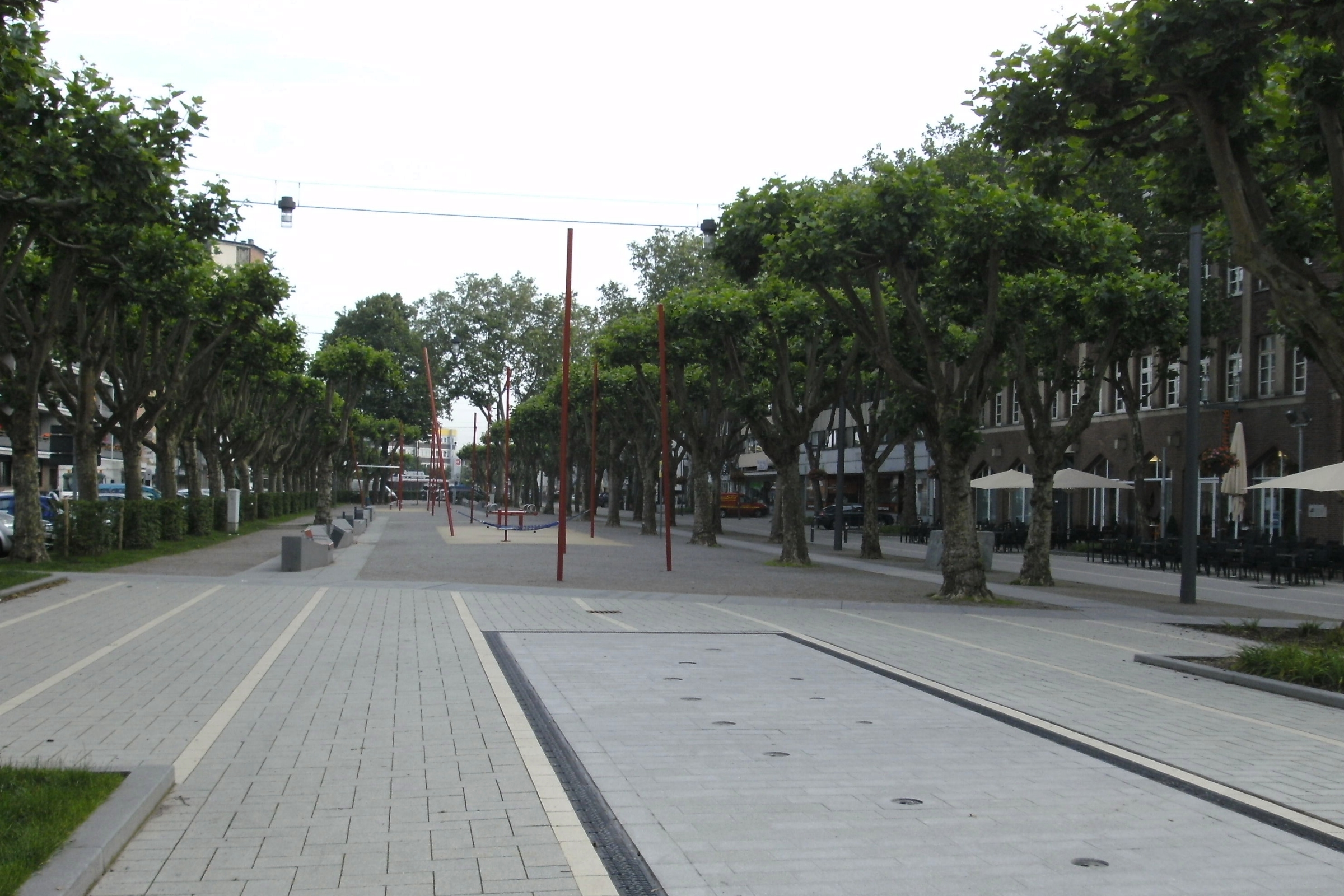 Zaporizhia Square in Oberhausen (Germany), named after Oberhausen's twin city Zaporizhia (Ukraine)